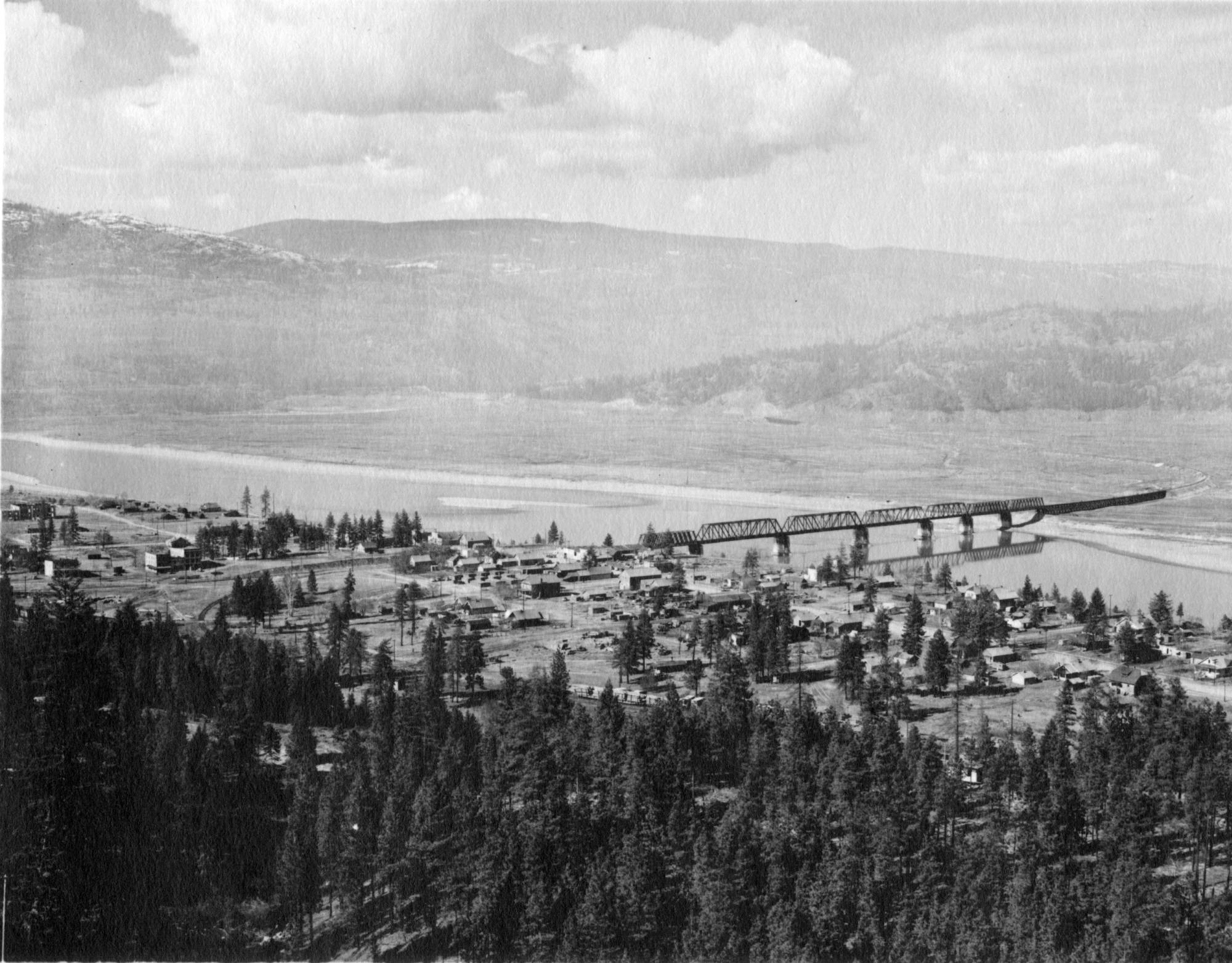 Great Northern Railway relocation, Marcus Washington. This view of the main portion of Marcus was taken from a point above the railroad grade, southeast of Marcus. The Columbia Hotel is at the left, and the old school building is beyond the hotel. The bridge across the Columbia River is the Great Northern Railway bridge of the Boyds line. The area across the river has been cleared by WPA clearing crews.